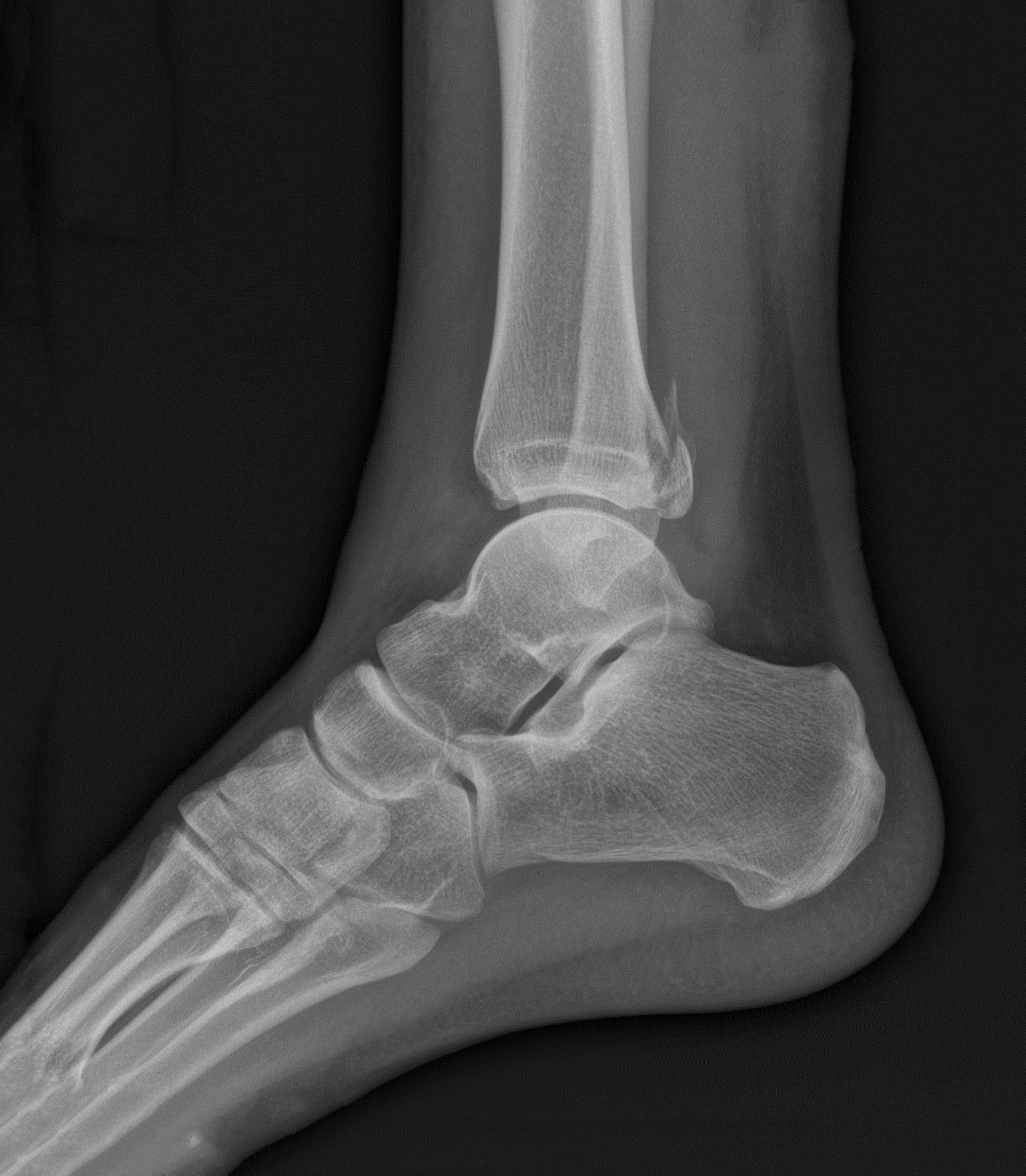 Maisonneuve Fracture of Malleolus. This is an edited version of the source image made for use in the "Anatomist" iOS and Android app and shared here under the terms of the source image's Share Alike Creative Commons license.